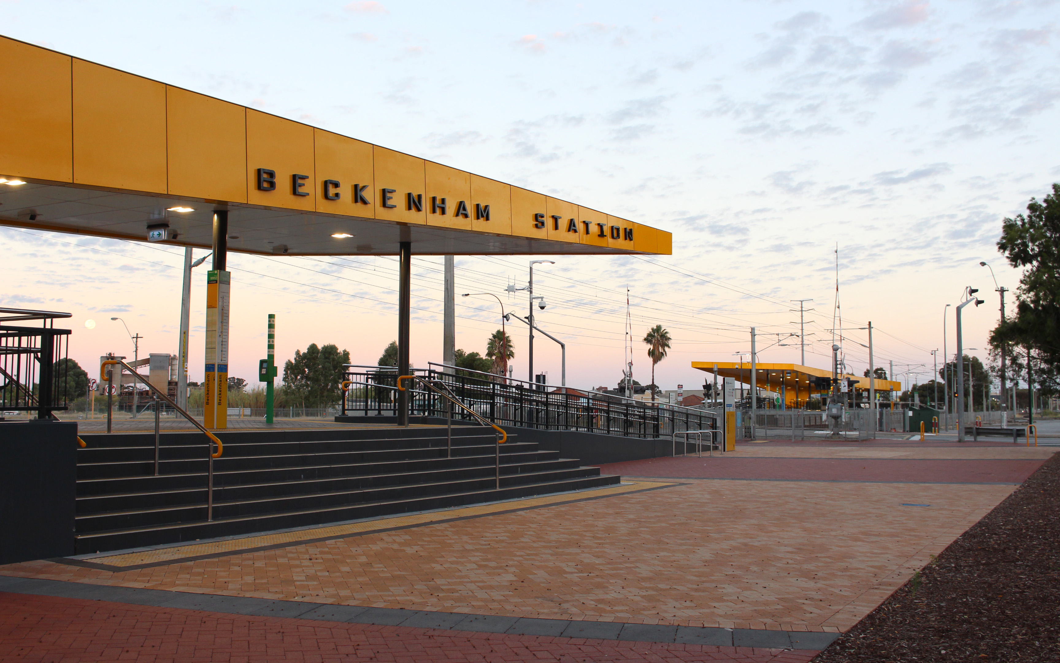 Beckenham railway station. To Armadale platform is in the foreground, with the To Perth platform seen in the background. One of the car parks can seen on the right.